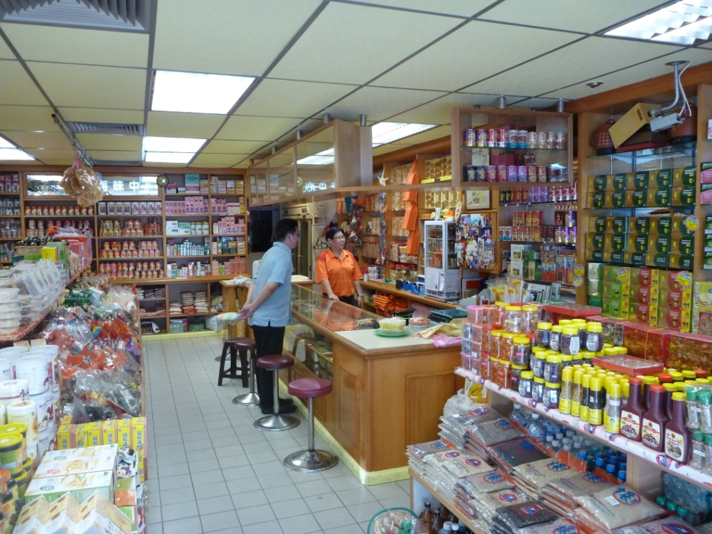 chinese-shop-Miri-Malaysia